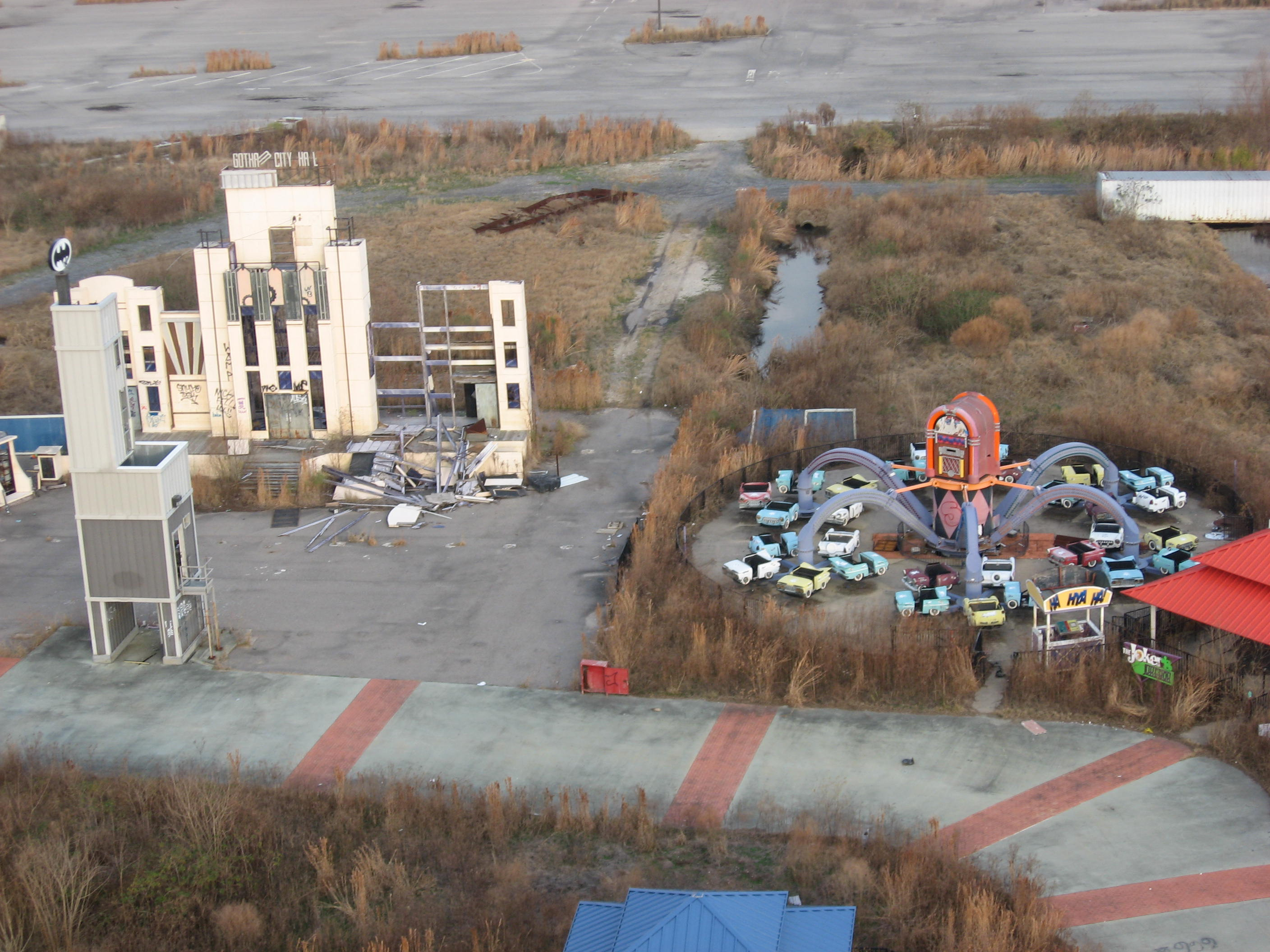 Ruins of abandoned amusement park in Eastern New Orleans, Six Flags New Orleans.